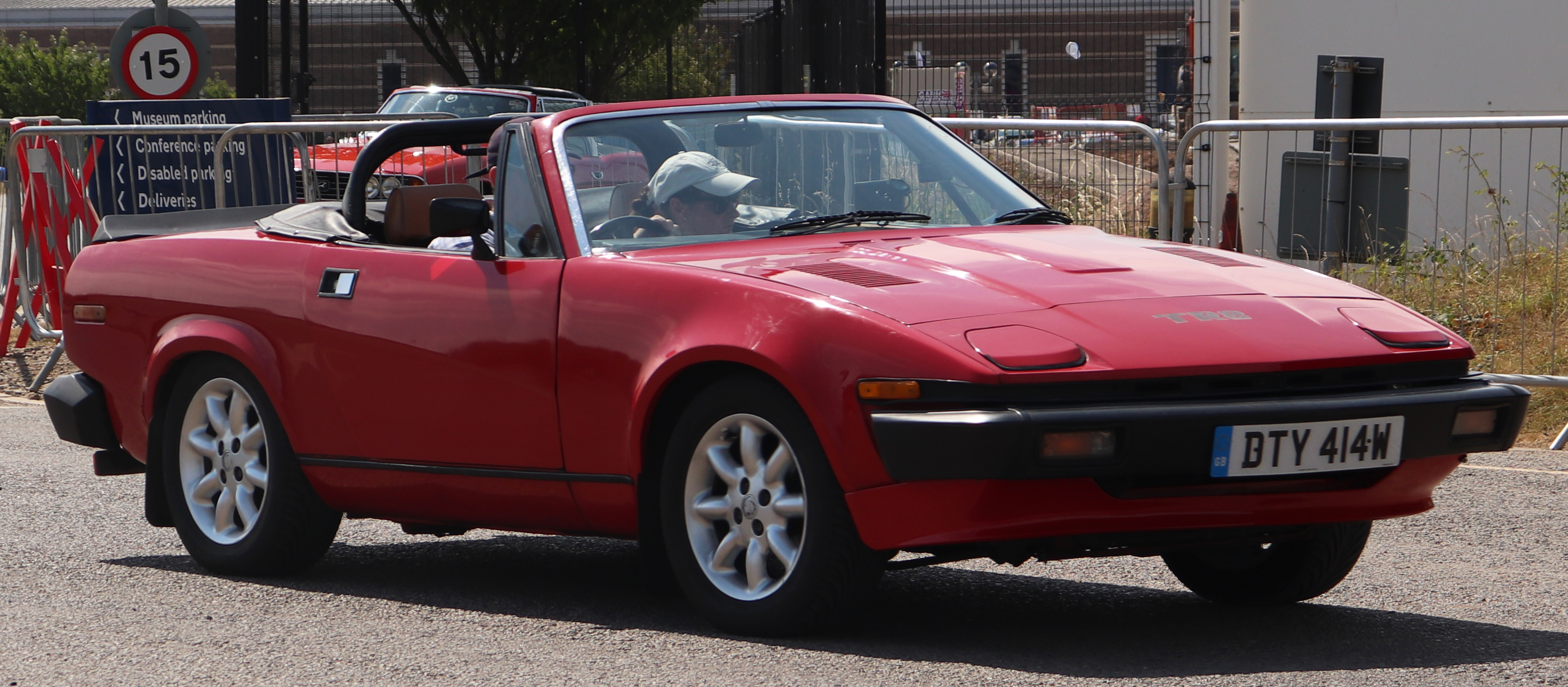 1980 Triumph TR7 Convertible 3.5 Taken at the British Motor Museum BMC & Leyland Show 2018, Gaydon